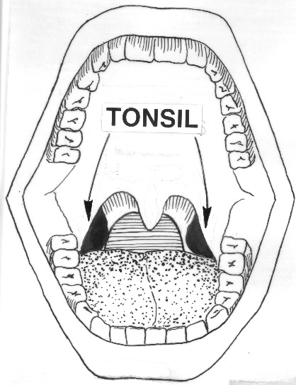 Line art drawing of tonsils